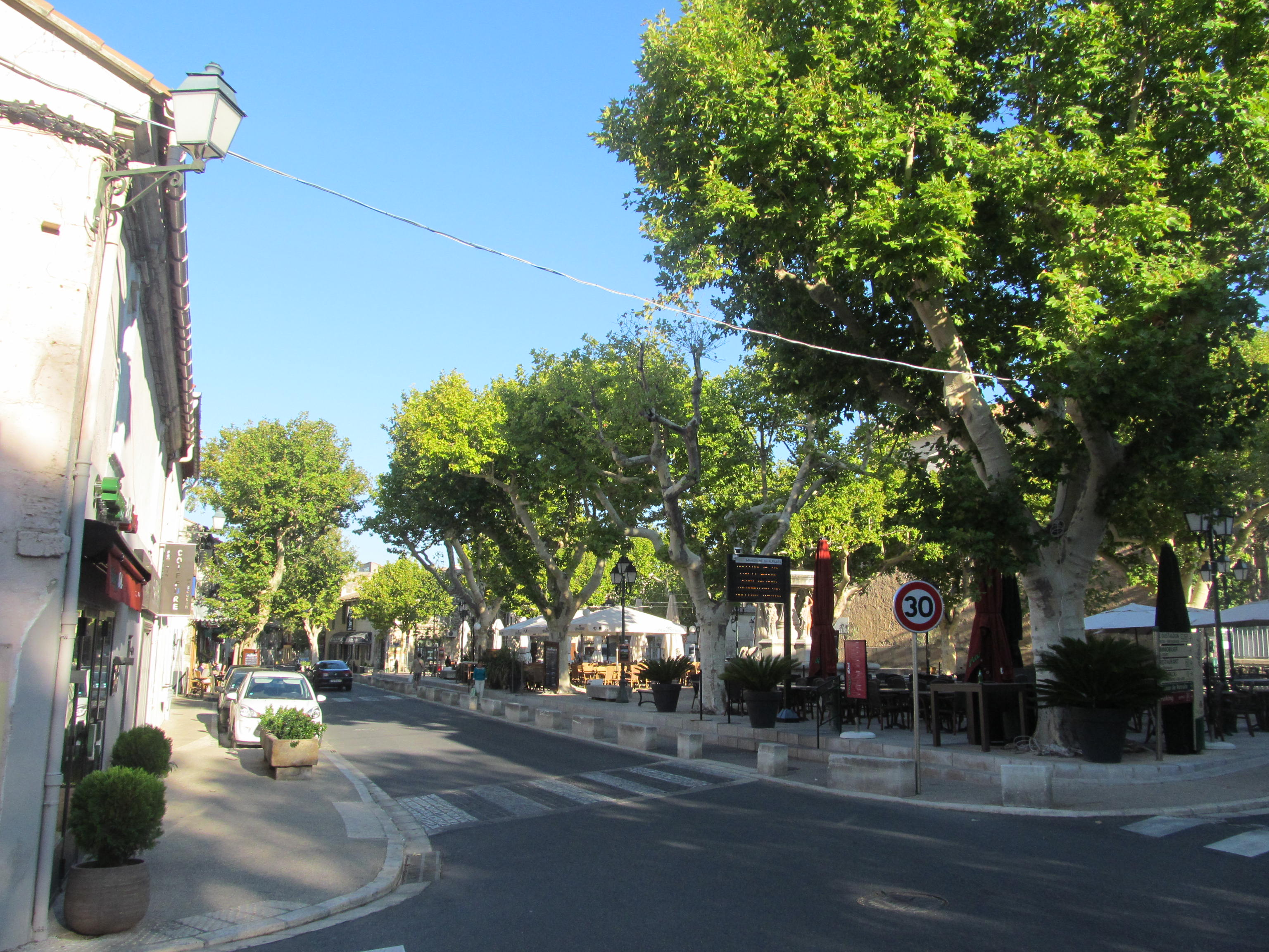 Maussane-les-Alpilles, Square